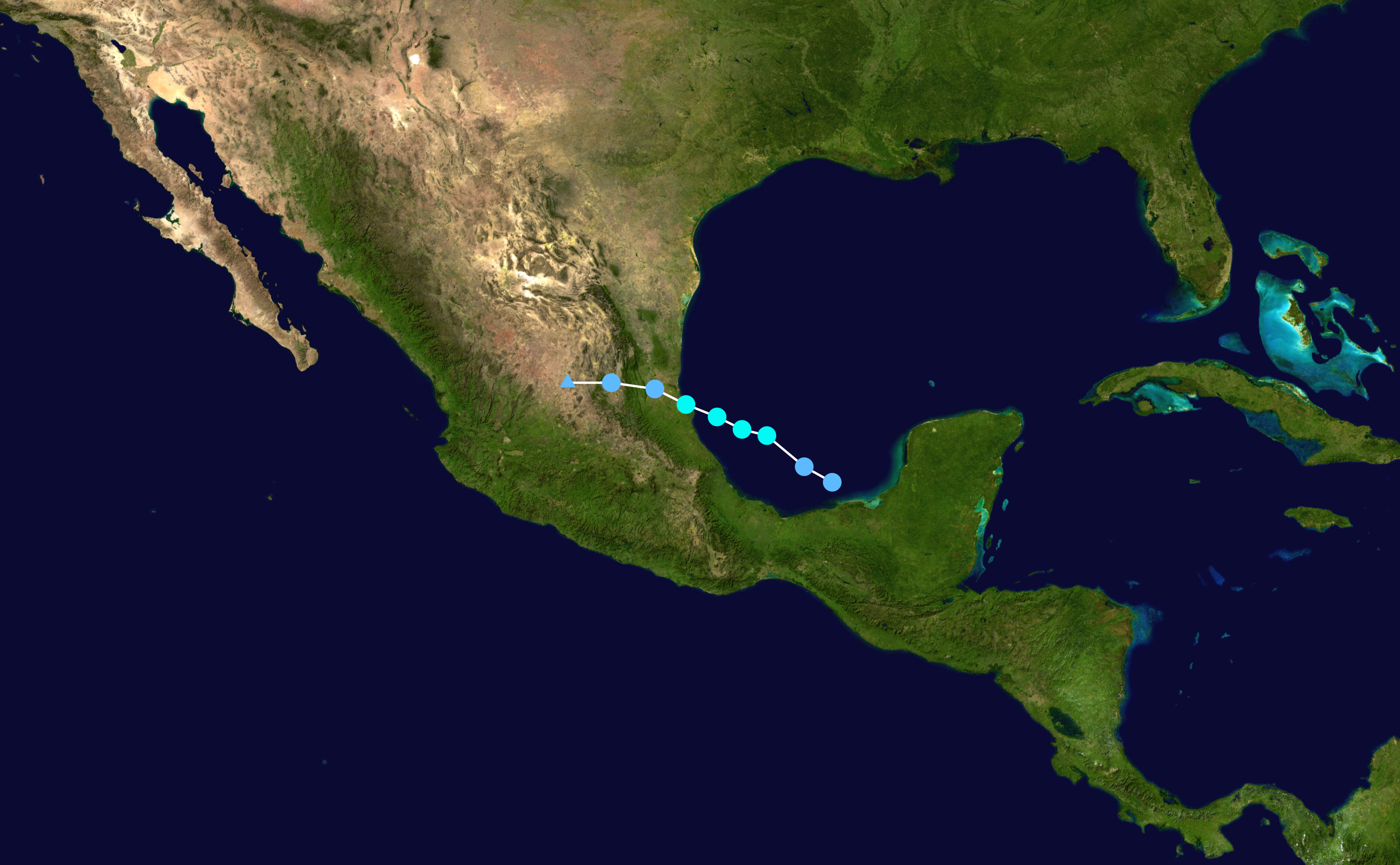 Track map of Tropical Storm Gert of the 2005 Atlantic hurricane season. The points show the location of the storm at 6-hour intervals. The colour represents the storm's maximum sustained wind speeds as classified in the Saffir–Simpson scale (see below), and the shape of the data points represent the nature of the storm, according to the legend below. Saffir–Simpson scale Tropical depression≤38 mph≤62 km/h Category 3111–129 mph178–208 km/h Tropical storm39–73 mph63–118 km/h Category 4130–156 mph209–251 km/h Category 174–95 mph119–153 km/h Category 5≥157 mph≥252 km/h Category 296–110 mph154–177 km/h Unknown Storm type Tropical cyclone Subtropical cyclone Extratropical cyclone / Remnant low / Tropical disturbance / Monsoon depression